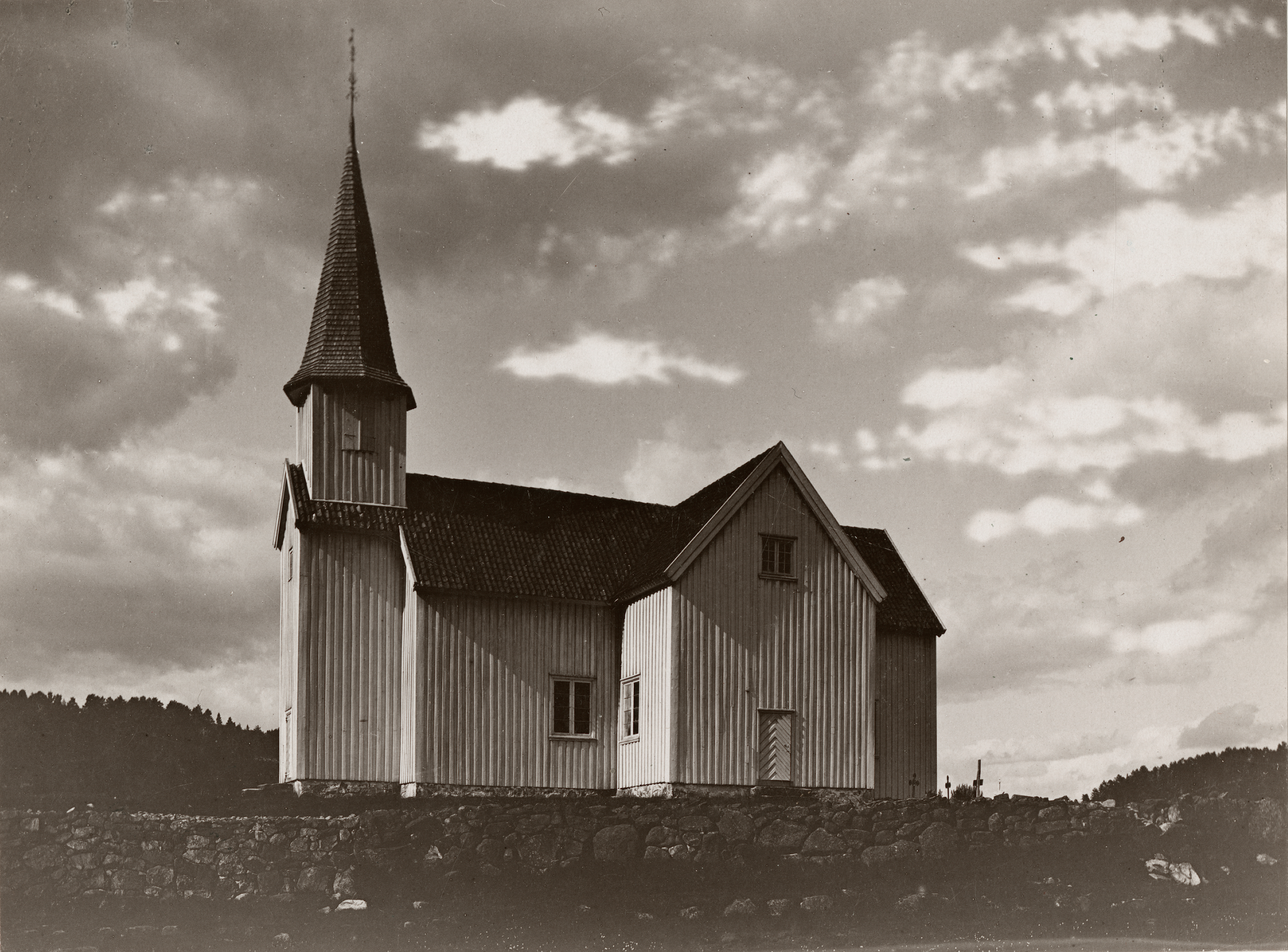 Finsland church in Songdalen, Vest-Agder, Norway, from 1803. This image on crowdsourcing geotagging platform Fotodugnad